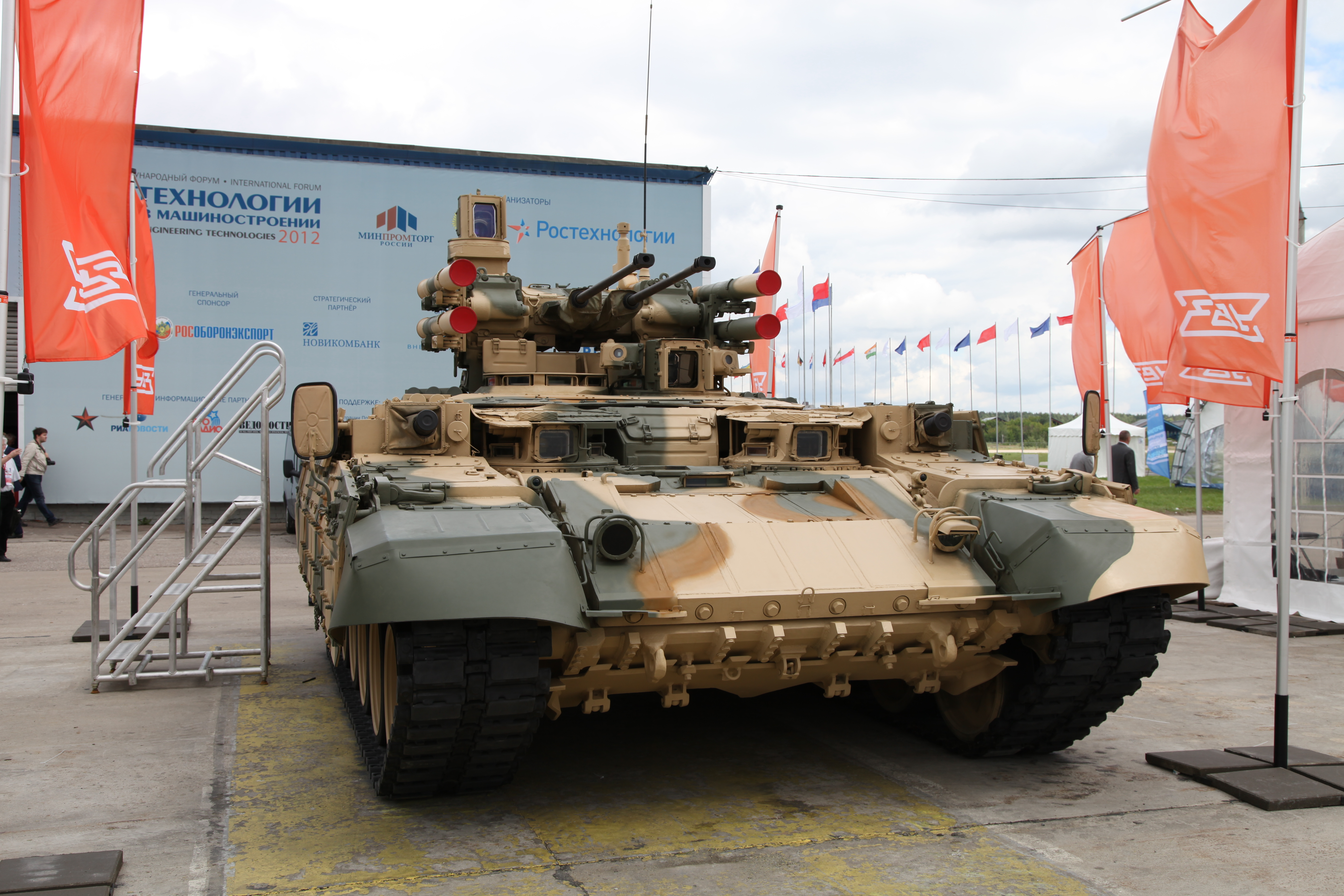 Tank support vehicle BMPT at Engineering Technologies 2012 international forum.